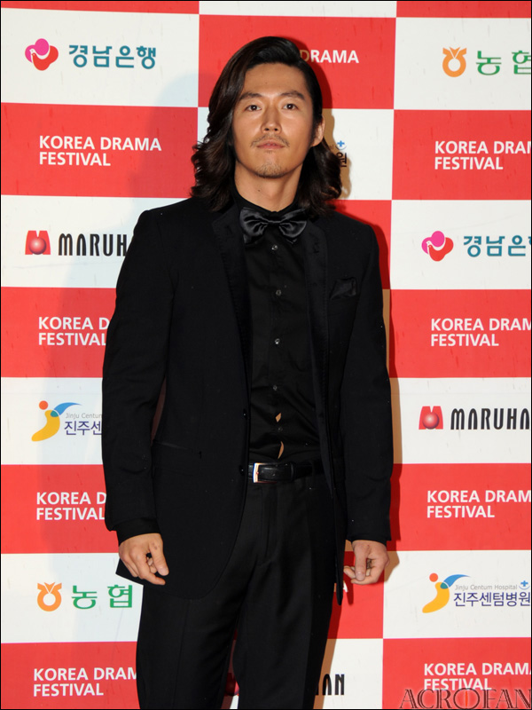 Jang Hyuk in October 2010.